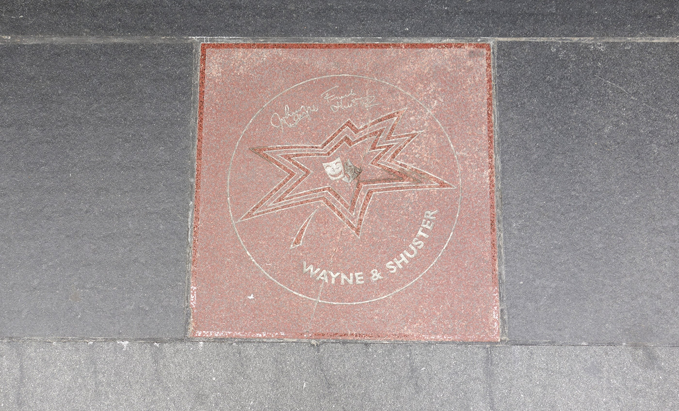 Street Plate for Wayne & Shuster comedy team, Roy Thomson Hall, Toronto, Canada